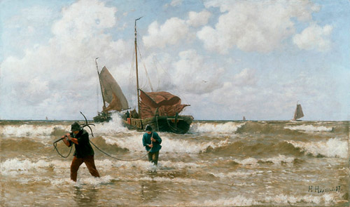 Aankomst van de vissersboten